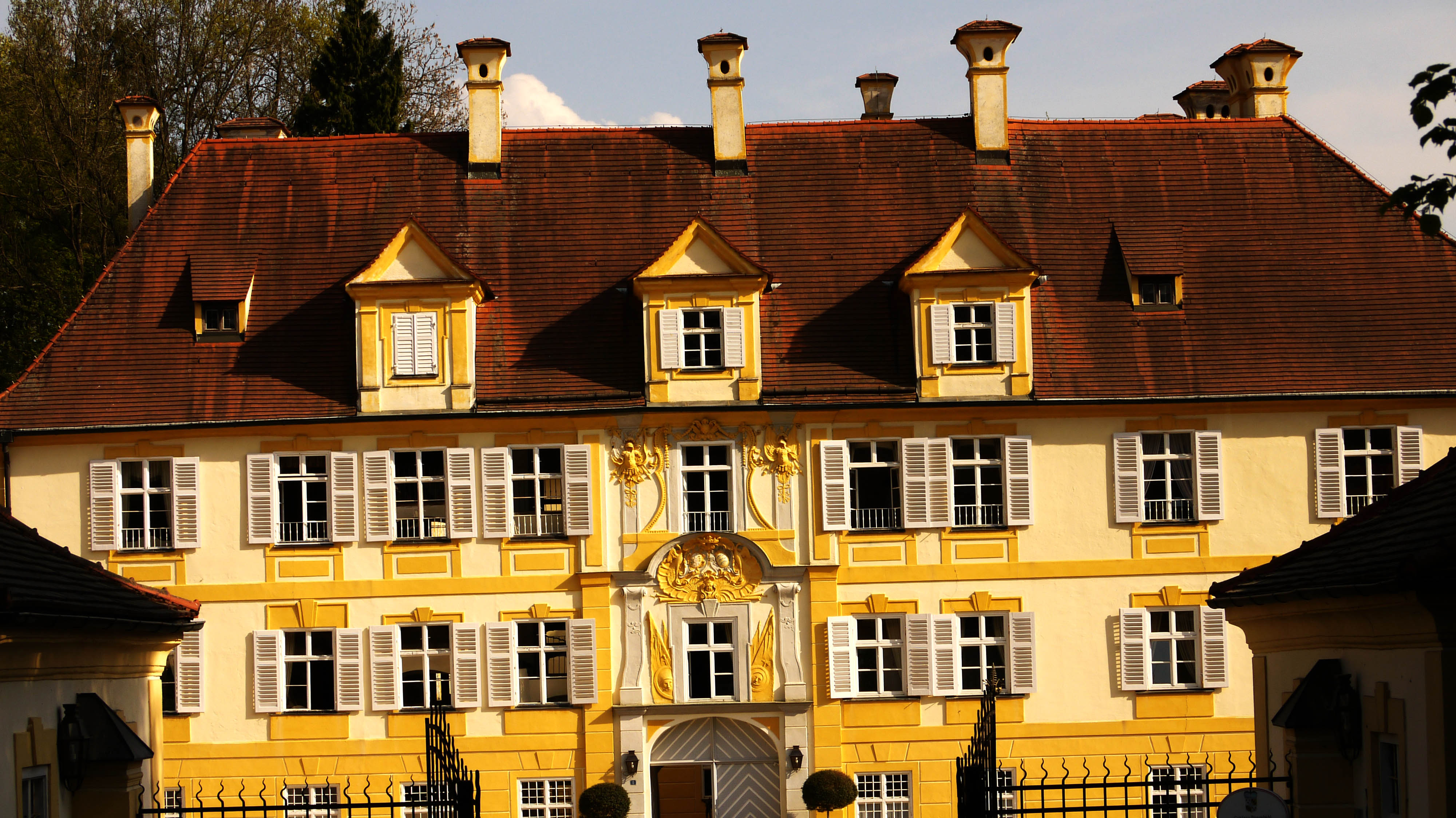 Castle Frauenbühl in Winhöring, Germany